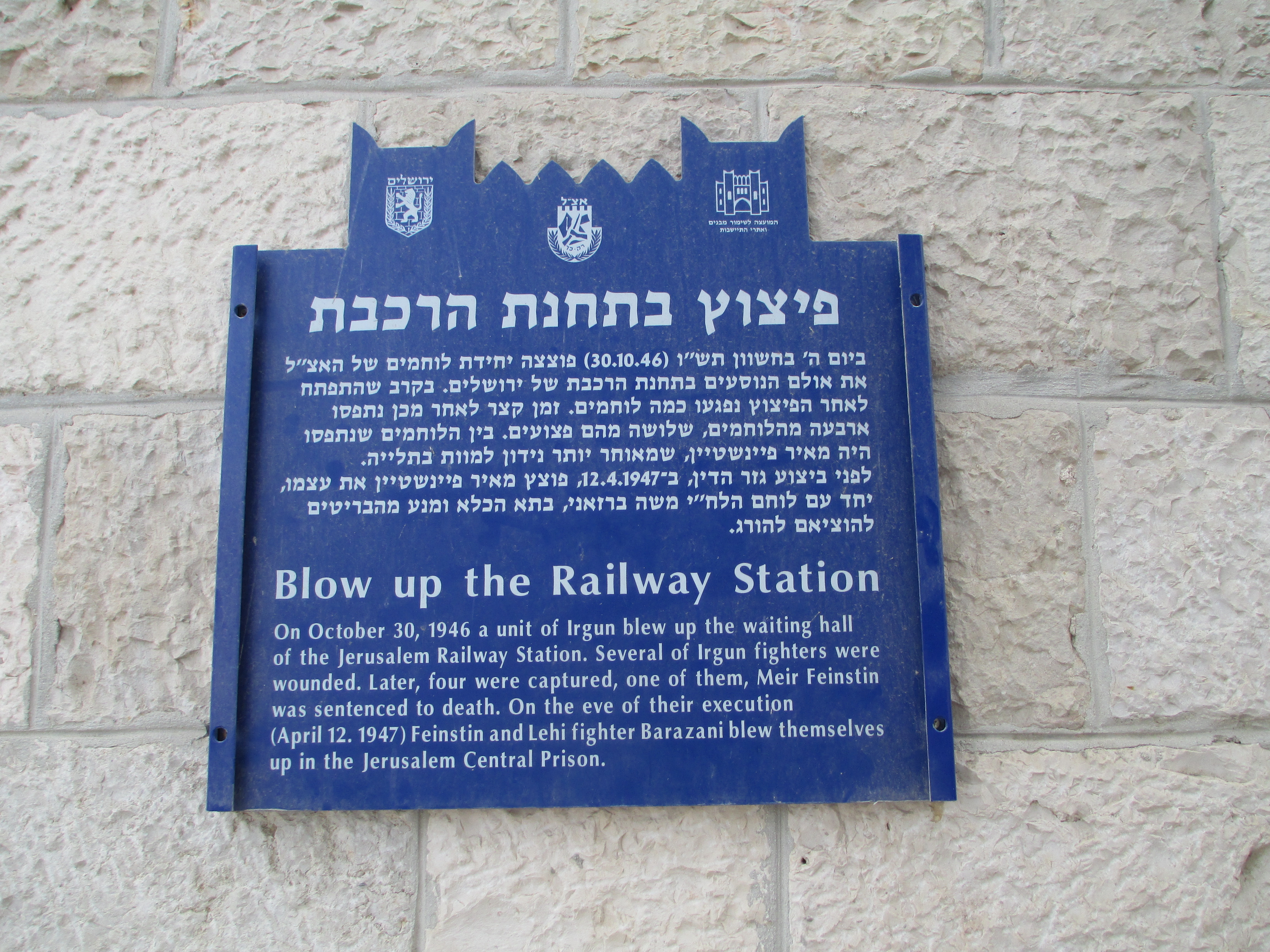 irgun memorial plaque in old railway station in jerusalem לוחית זיכרון להתקפת אצ"ל על תחנת הרכבת בירושלים